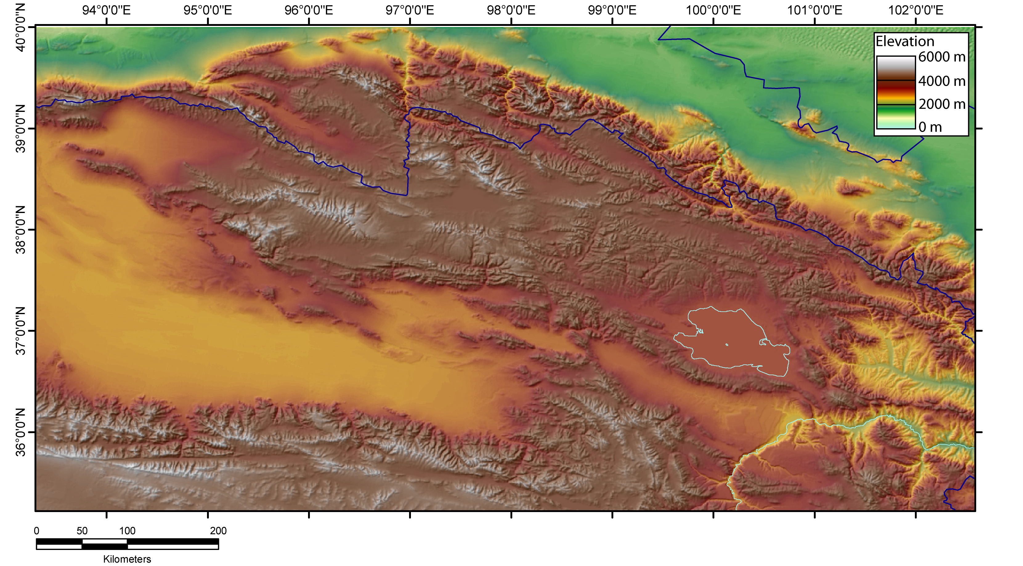 DEM of the Qilian mountains (China) created by Jide from the GTOPO30 database.